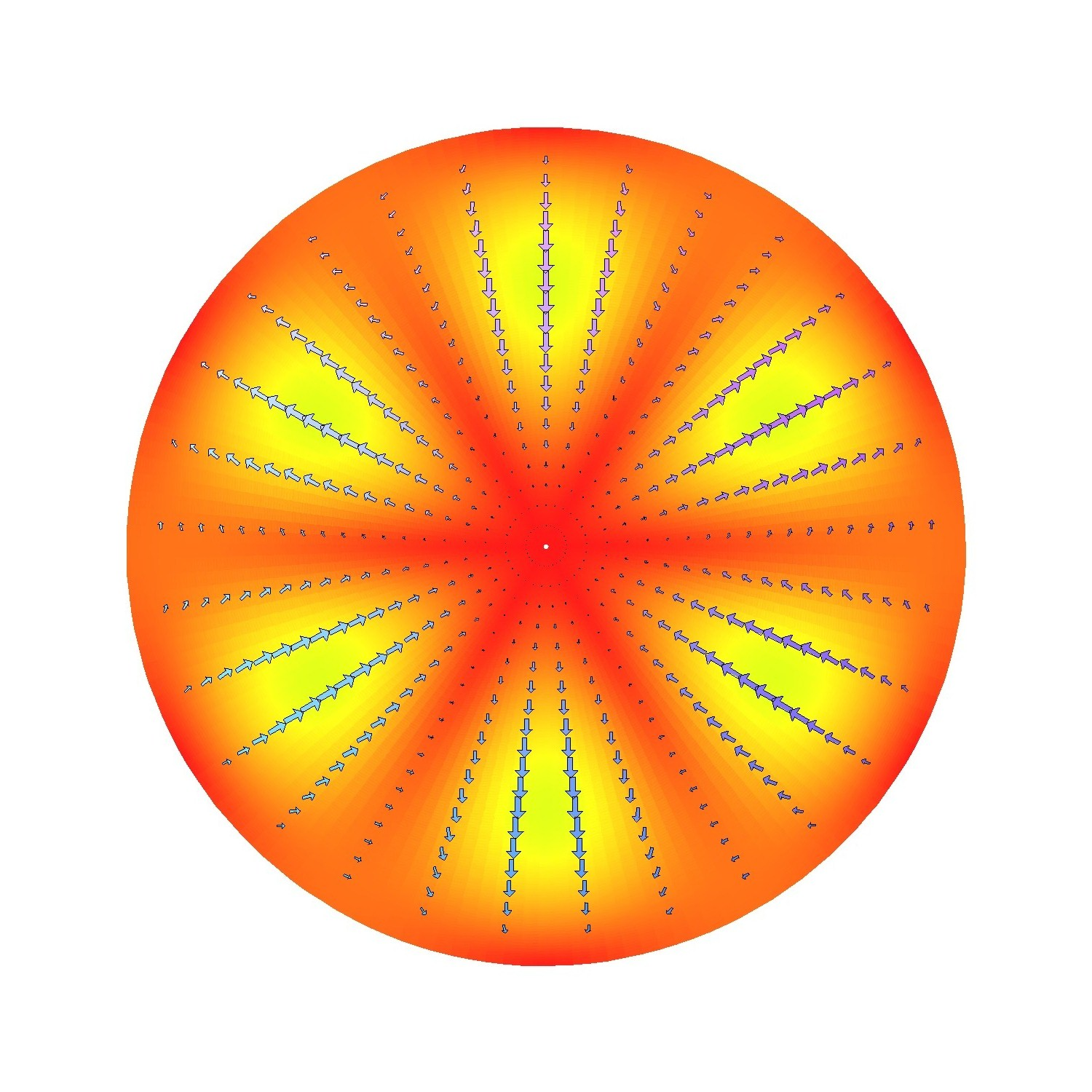 Plot of E and H fields on the TEnl mode defined by n and l.